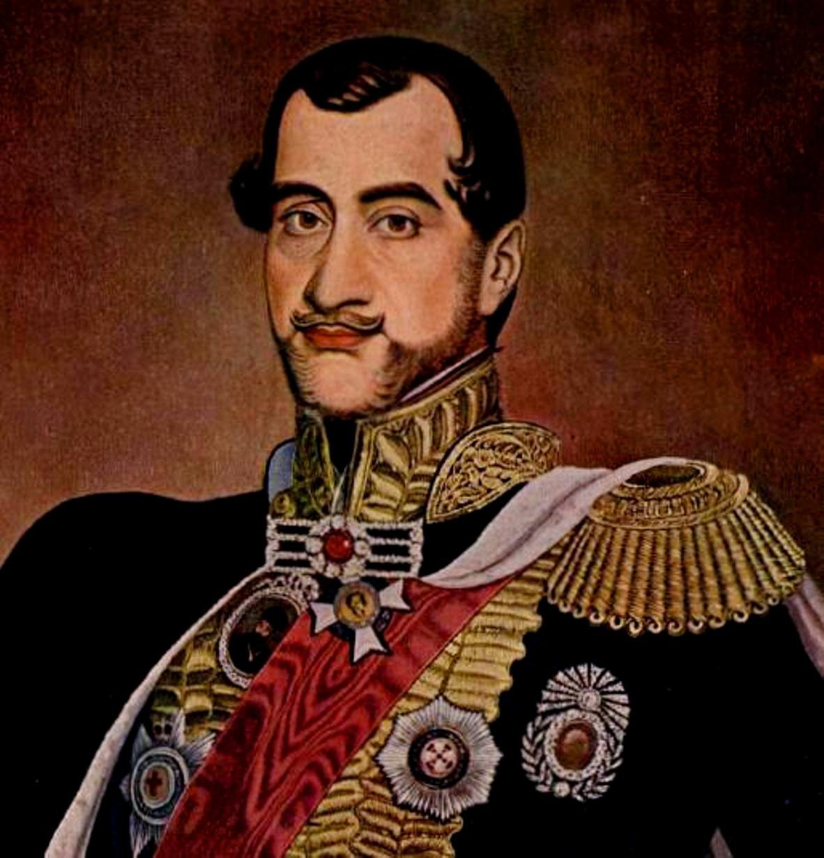 Portrait of Wallachia's reigning Prince Alexandru D. Ghica, in full regalia.